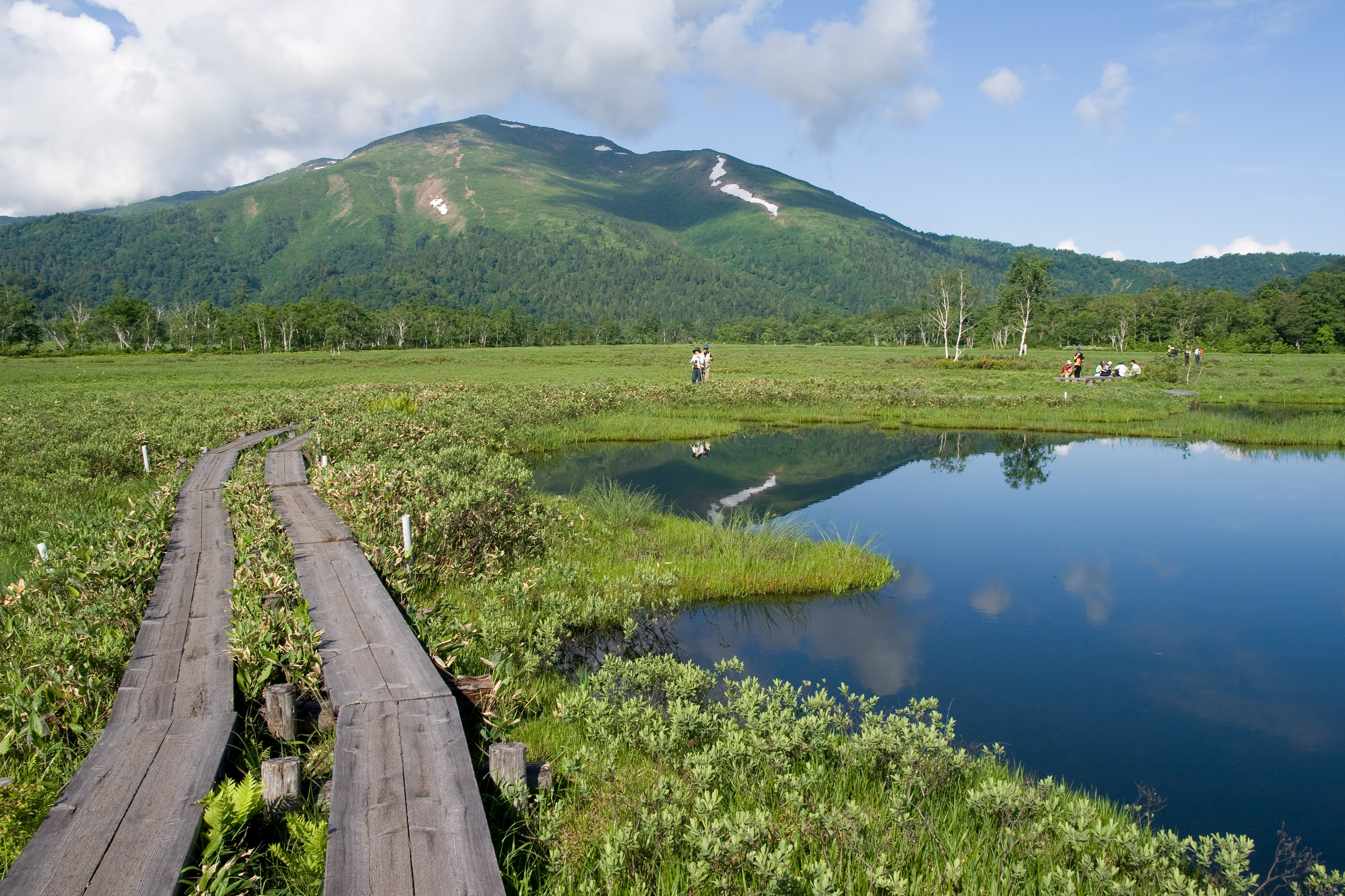 Mt.Shibutsu and Ozegahara, Katashina Vill., Gunma Pref., Japan